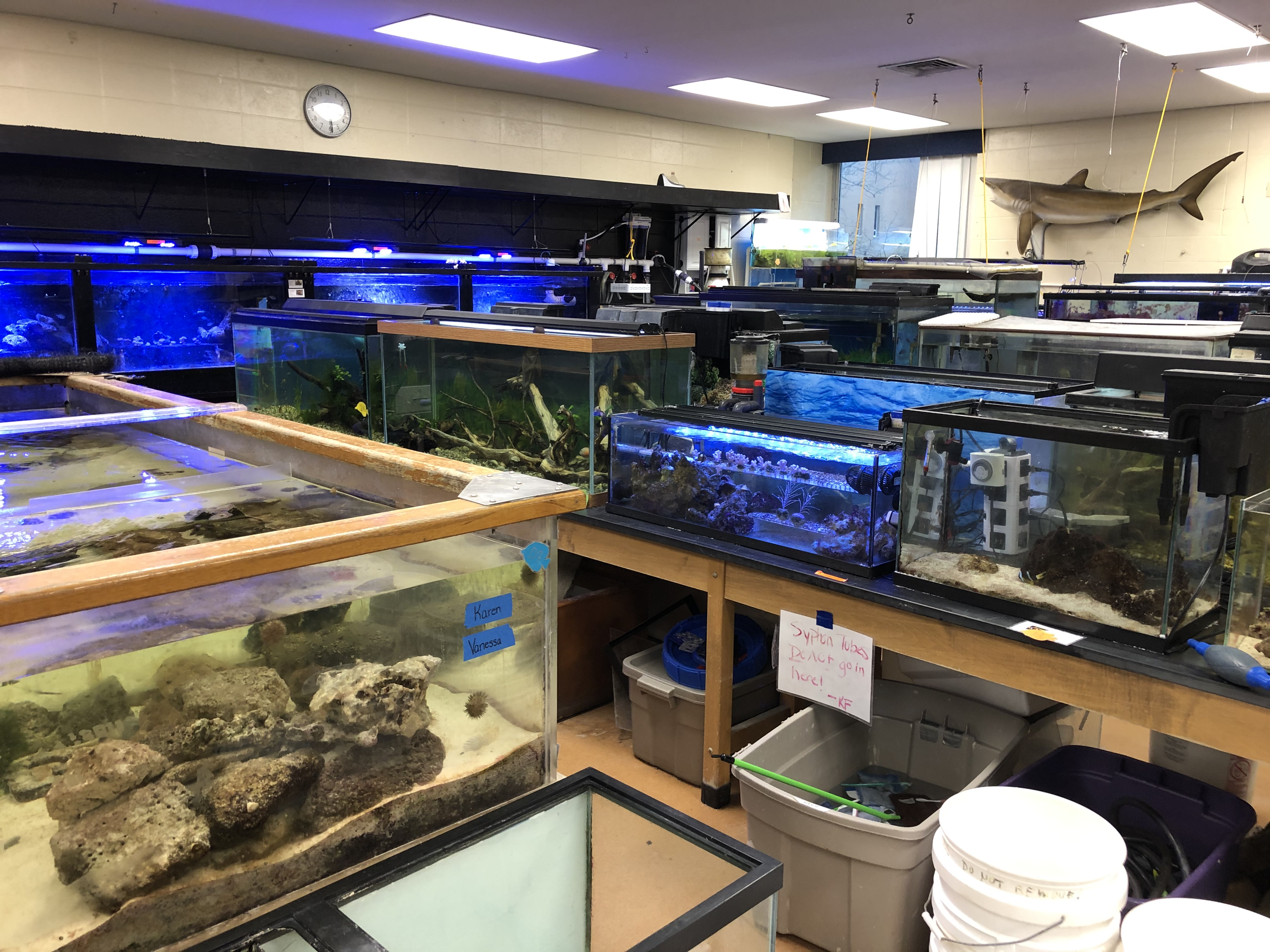 Bowling Green State University Aquarium / Marine Biology Lab in the Life Sciences Building